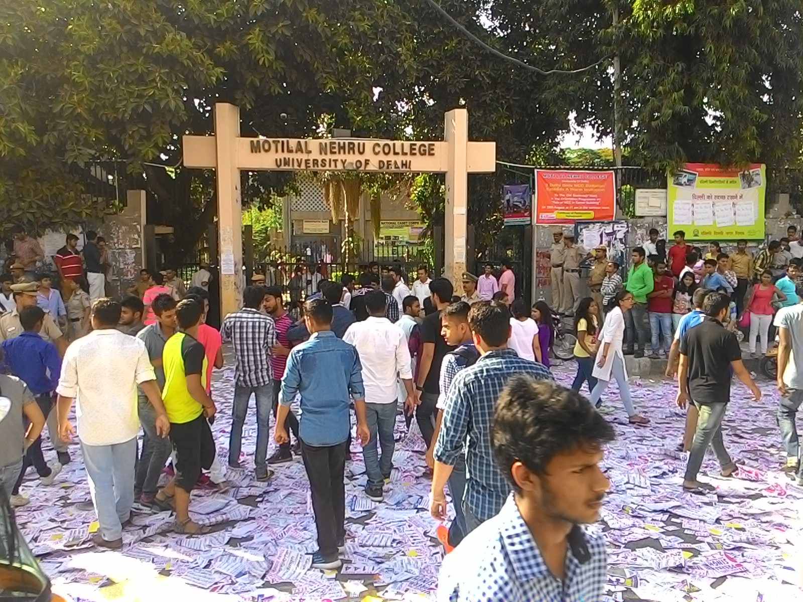 Campaigning during DUSU elections outside College gate.